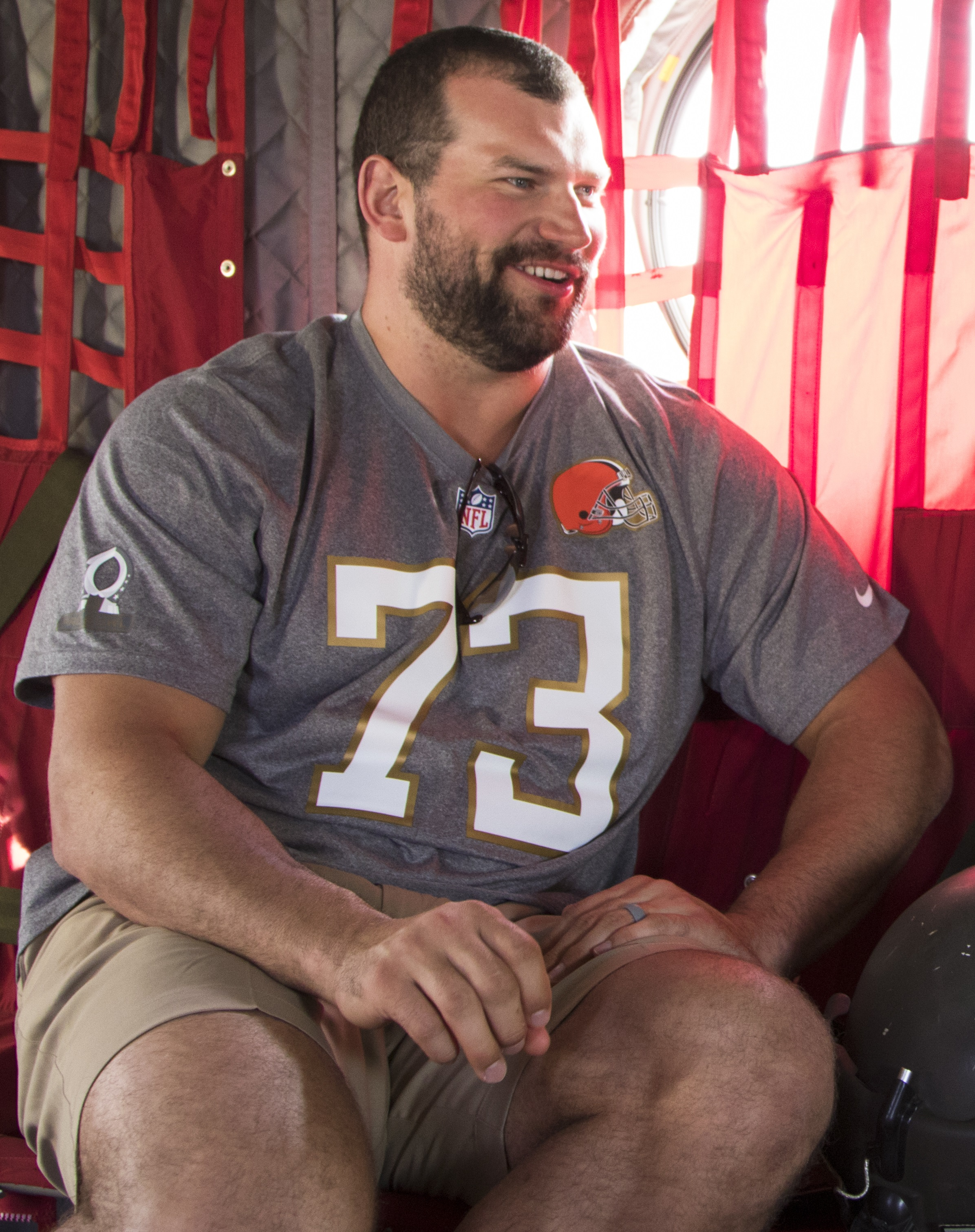 Cleveland Browns offensive tackle Joe Thomas chats with U.S. Army Sgt. Aaron Weier during the 2016 Pro Bowl Draft show at Wheeler Army Airfield, Hawaii, Jan. 27.